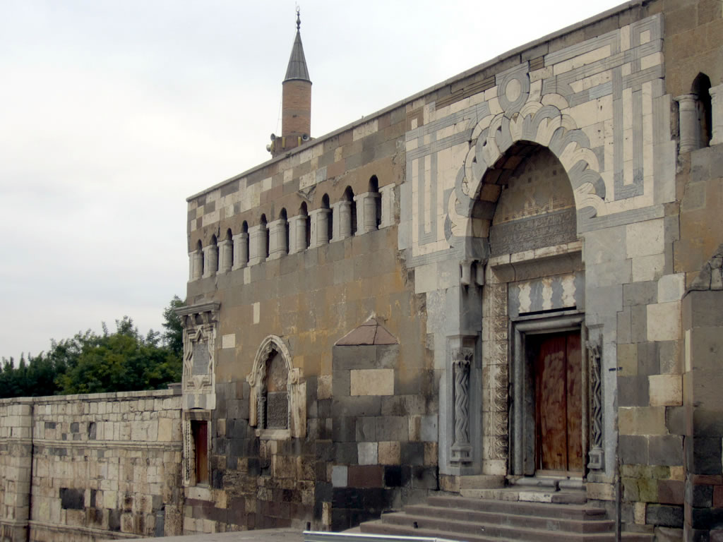 Alaaddin Mosque, Konya, was built in 1231 using materials from earlier Roman and Byzantine buildings.